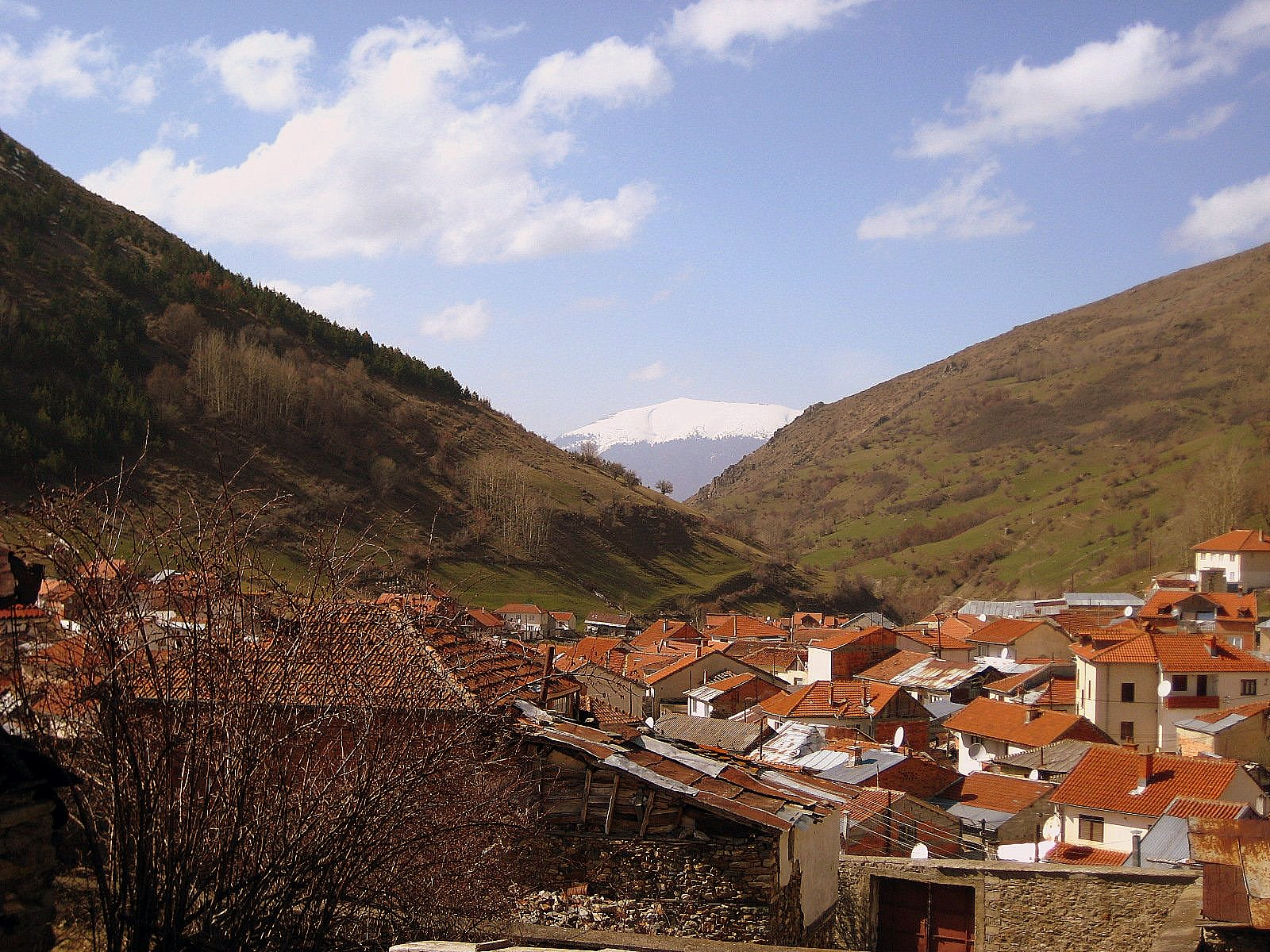 Photos from Arianit Dobroshi for Wikimedia Commons. Original Filename "arianit/Brod/image158.jpg"